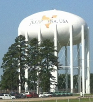 Water tower in Texarkana, TX